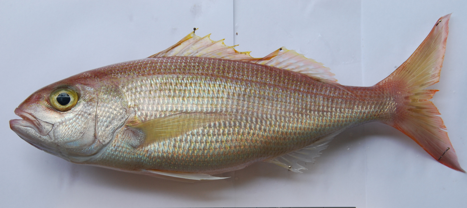 Pristipomoides filamentosus. Collected off Nouméa, New Caledonia, deep-sea off the Barrier Reef.